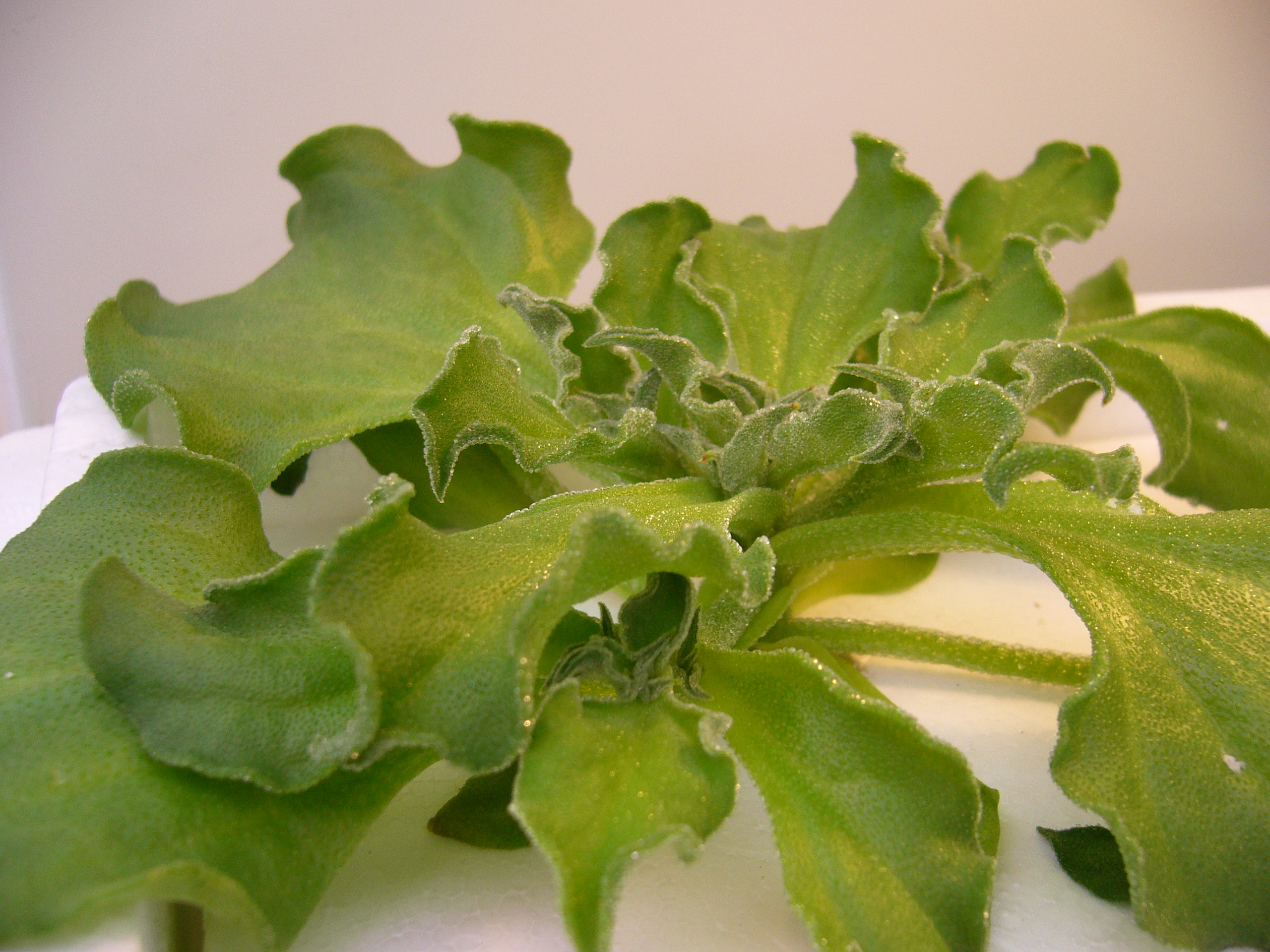 Mesembrianthemum crystallinum